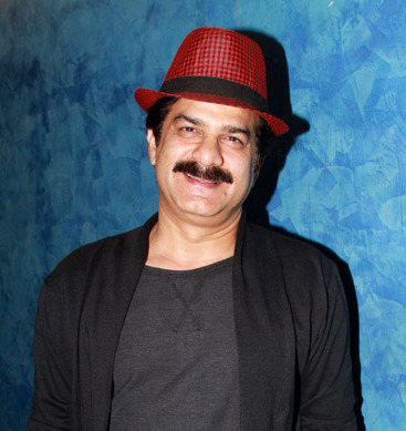 Jamnadas Majethia at Zee Rishtey Awards 2010